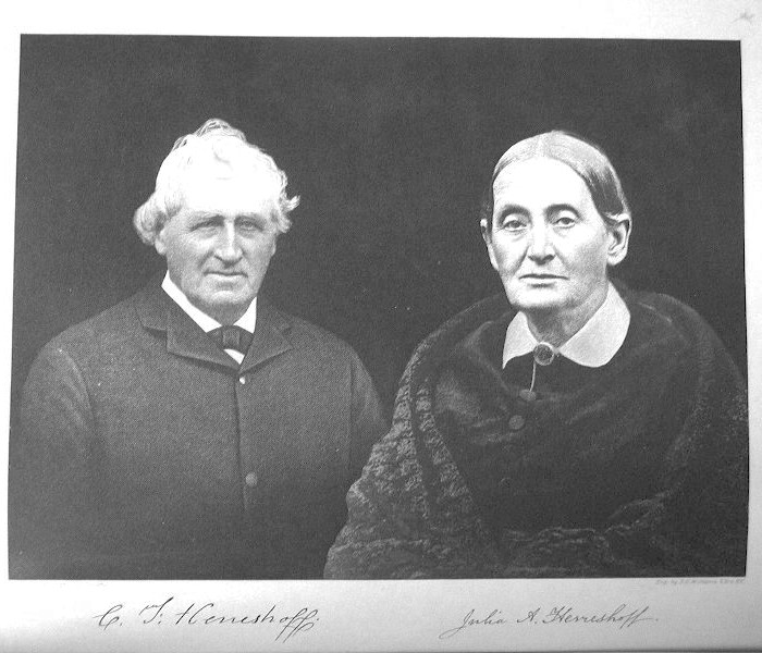 Charles Frederick Herreshoff and Julia Ann (Lewis) Herreshoff